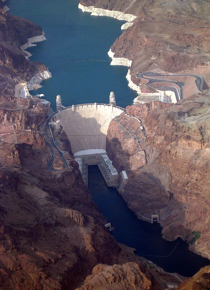 Hoover Dam in Nevada (USA)